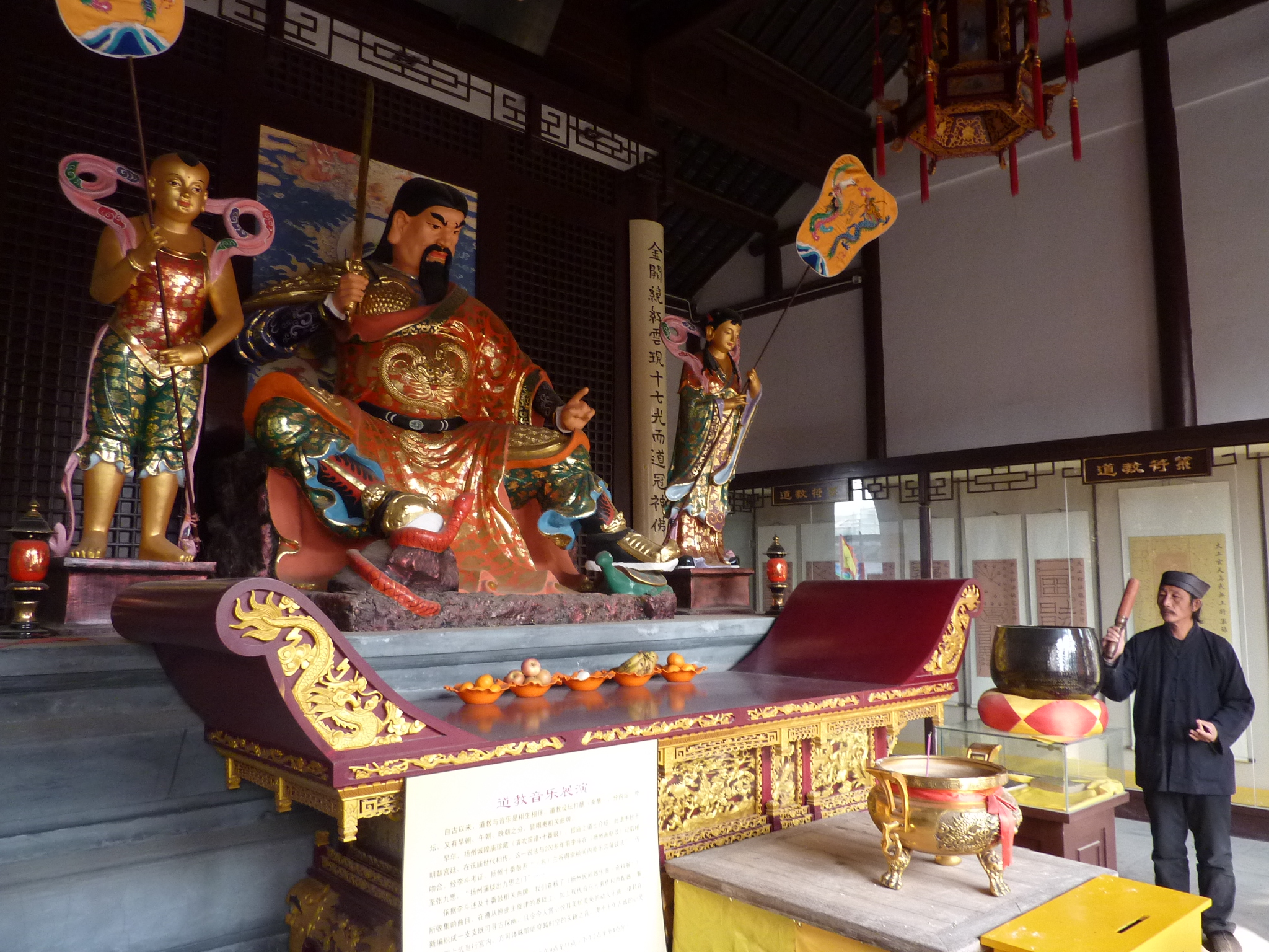 Yangzhou's Wudang Palace. The statue of Zhenwu in the main hall of the temple, the Zhenwu Hall. According to the canon, Zhenwu sits with his left foot resting on the Turtle General, and the right foot, on the Snake General